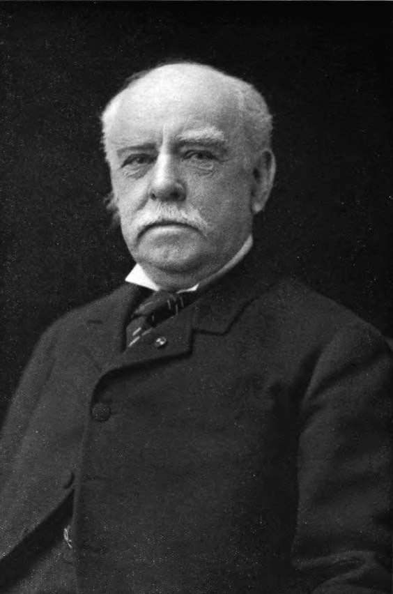 Portrait of Henry Hitchcock, St. Louis lawyer.